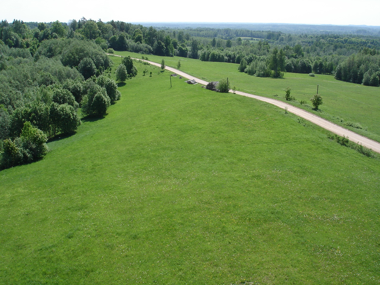 panorama